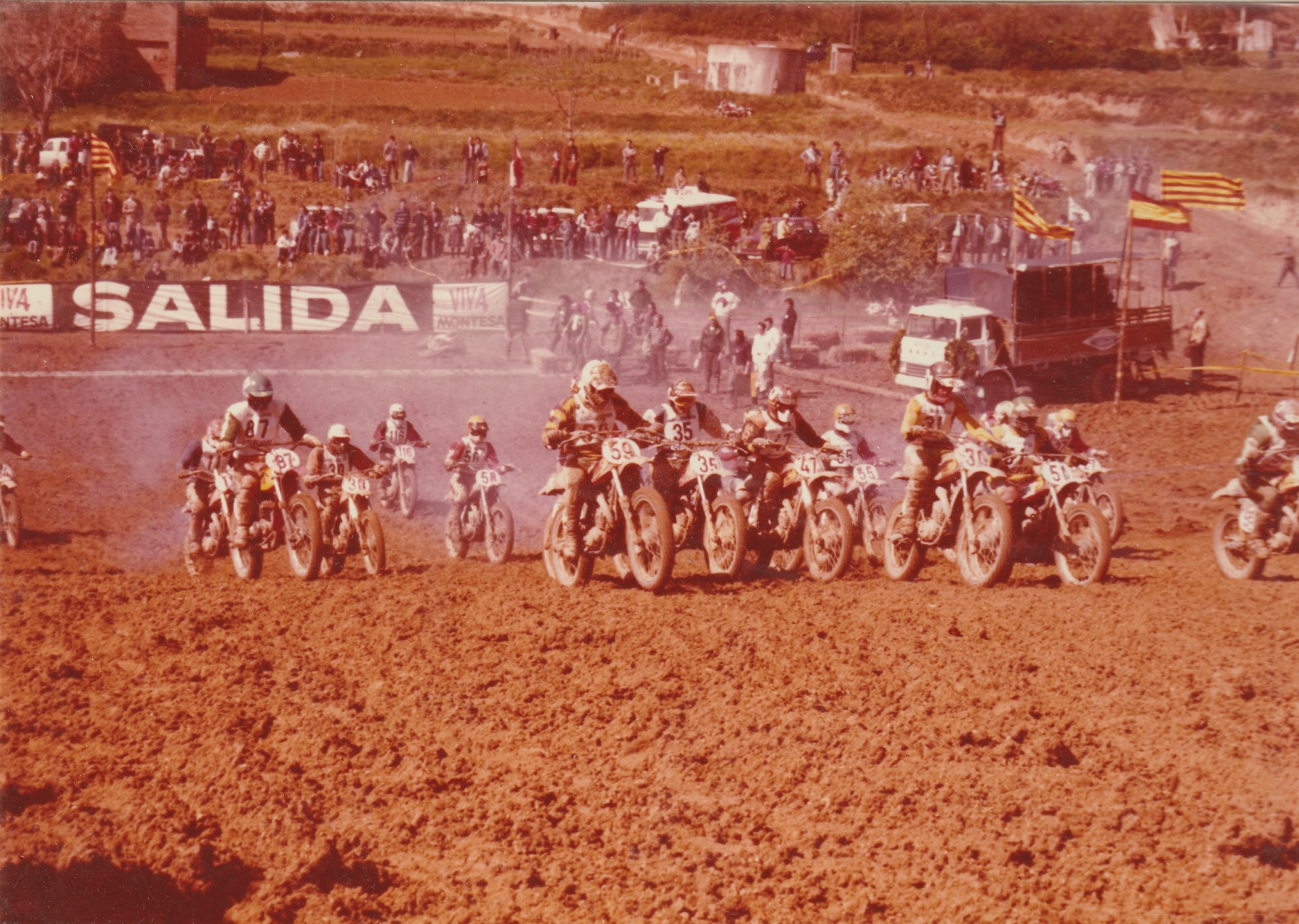 Start of Motocross held in Mollet on March 1977, scorable for the RFME Junior 125cc Cup.